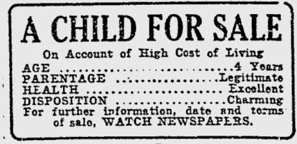 Advertisement for 1920 silent film, A Child for Sale. Also can be seen at